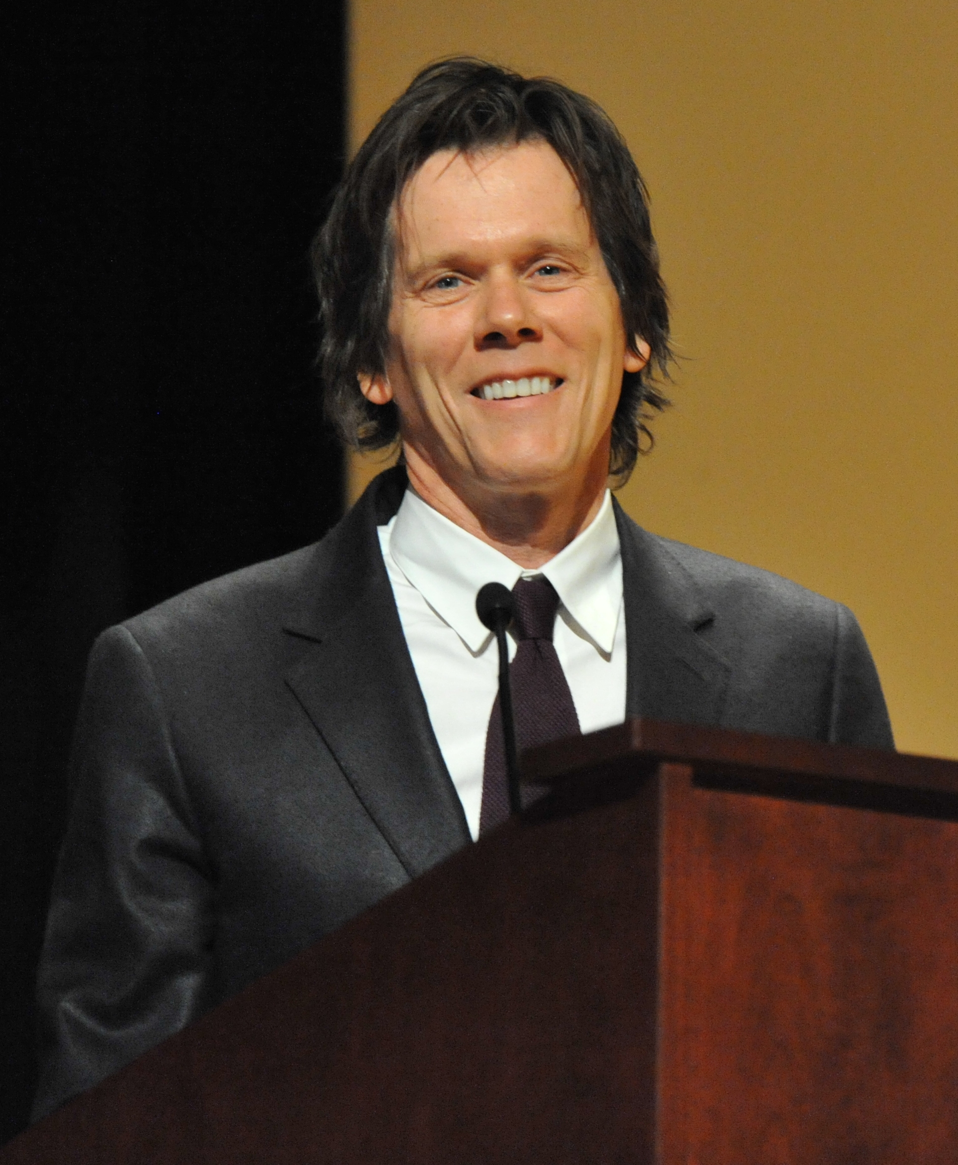 Kevin Bacon speaks at Little Hall Theater on Marine Corps Base Quantico prior to the Virginia premiere of HBO Films' Taking Chance on February 10, 2009. Bacon plays the role of U.S. Marine Lt. Col. Michael Strobl, the officer who escorted the body of Marine Lance Cpl. Chance Phelps home to Dubois, Wyoming from Dover, Delaware.